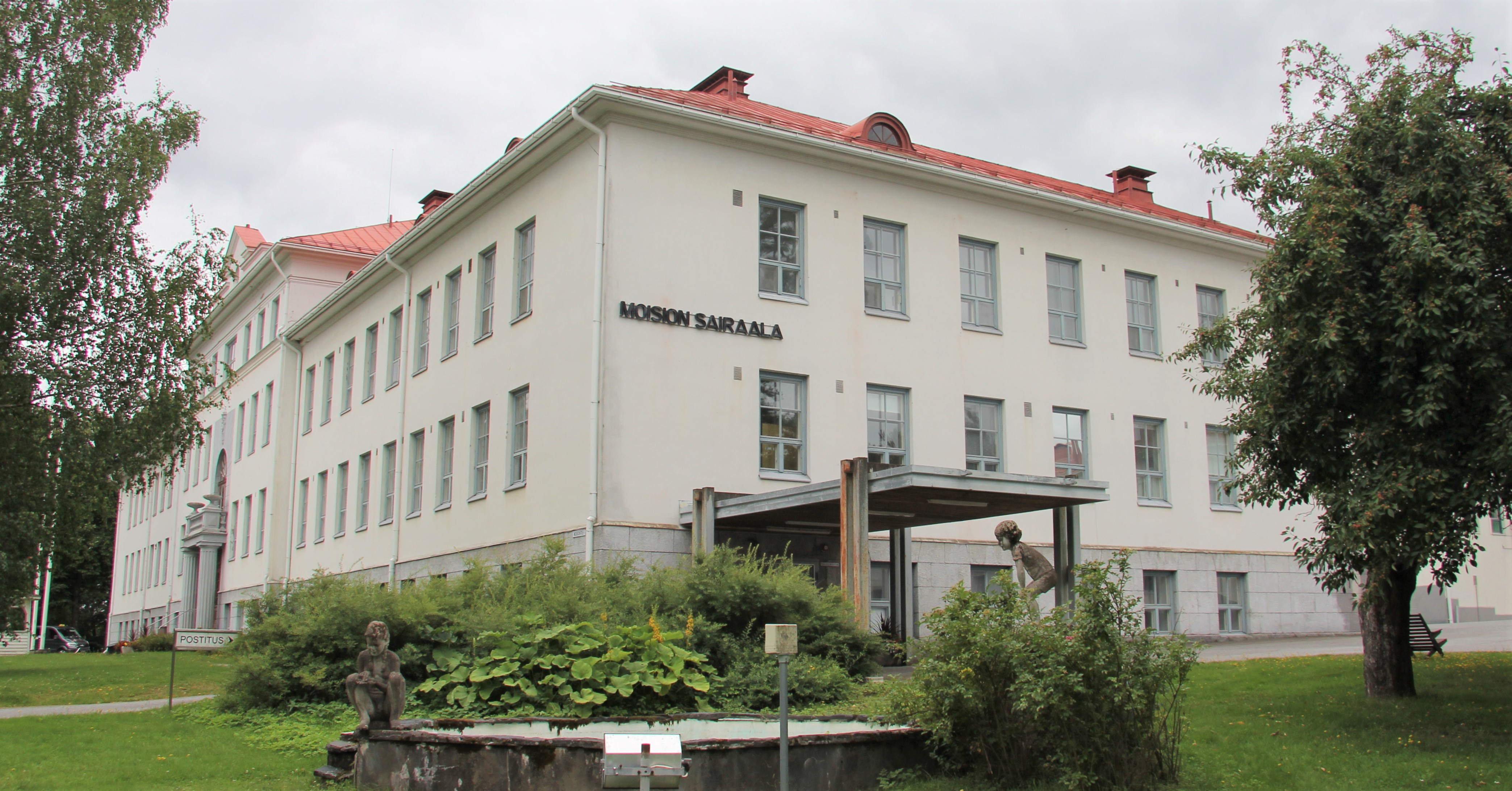 Main building of Moisio Hospital in Mikkeli, Finland. Sculpture "Summer" (1977) by Panu Patomäki can be seen in front of the building.